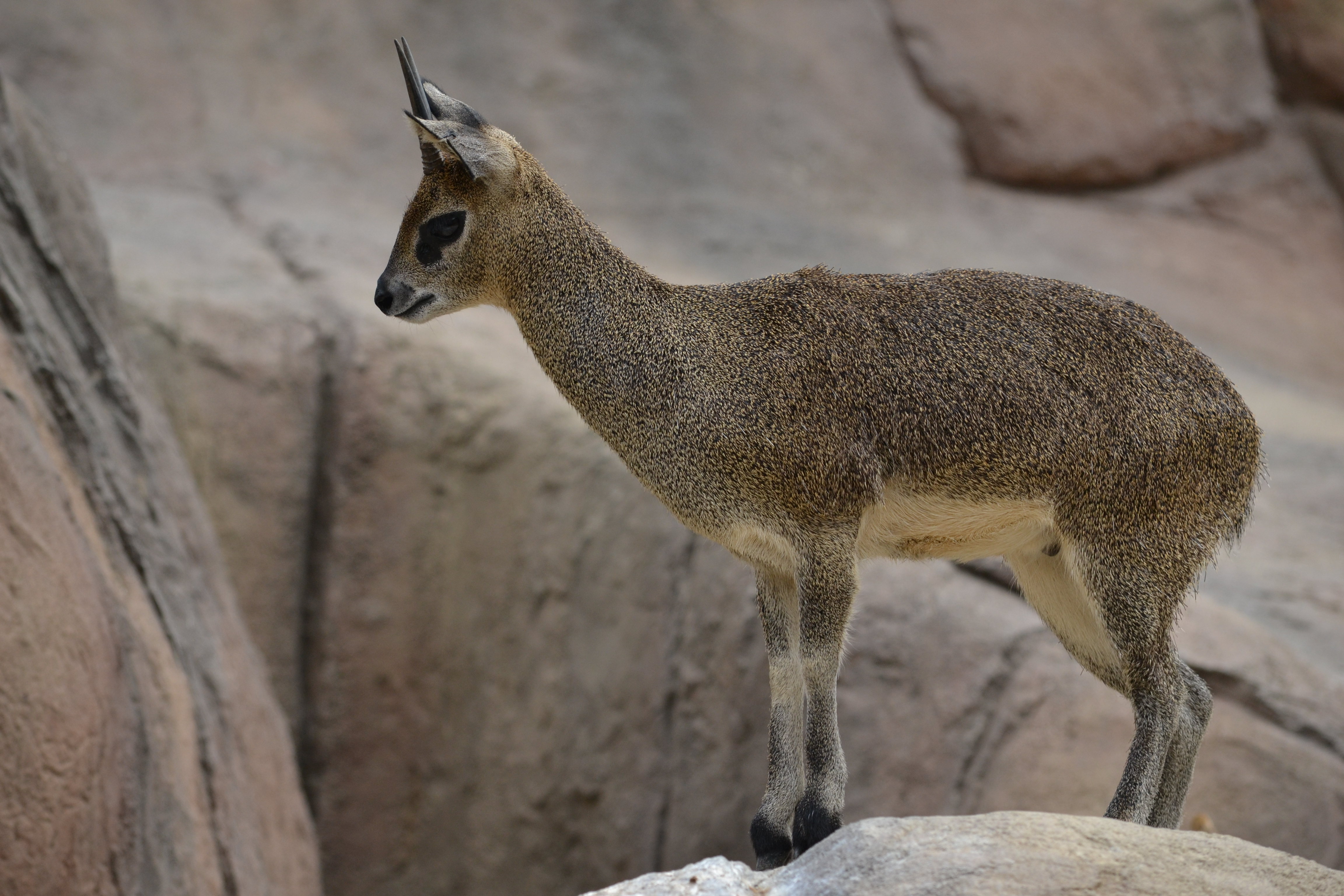 The klipspringer (Oreotragus oreotragus), is a small species of African antelope.